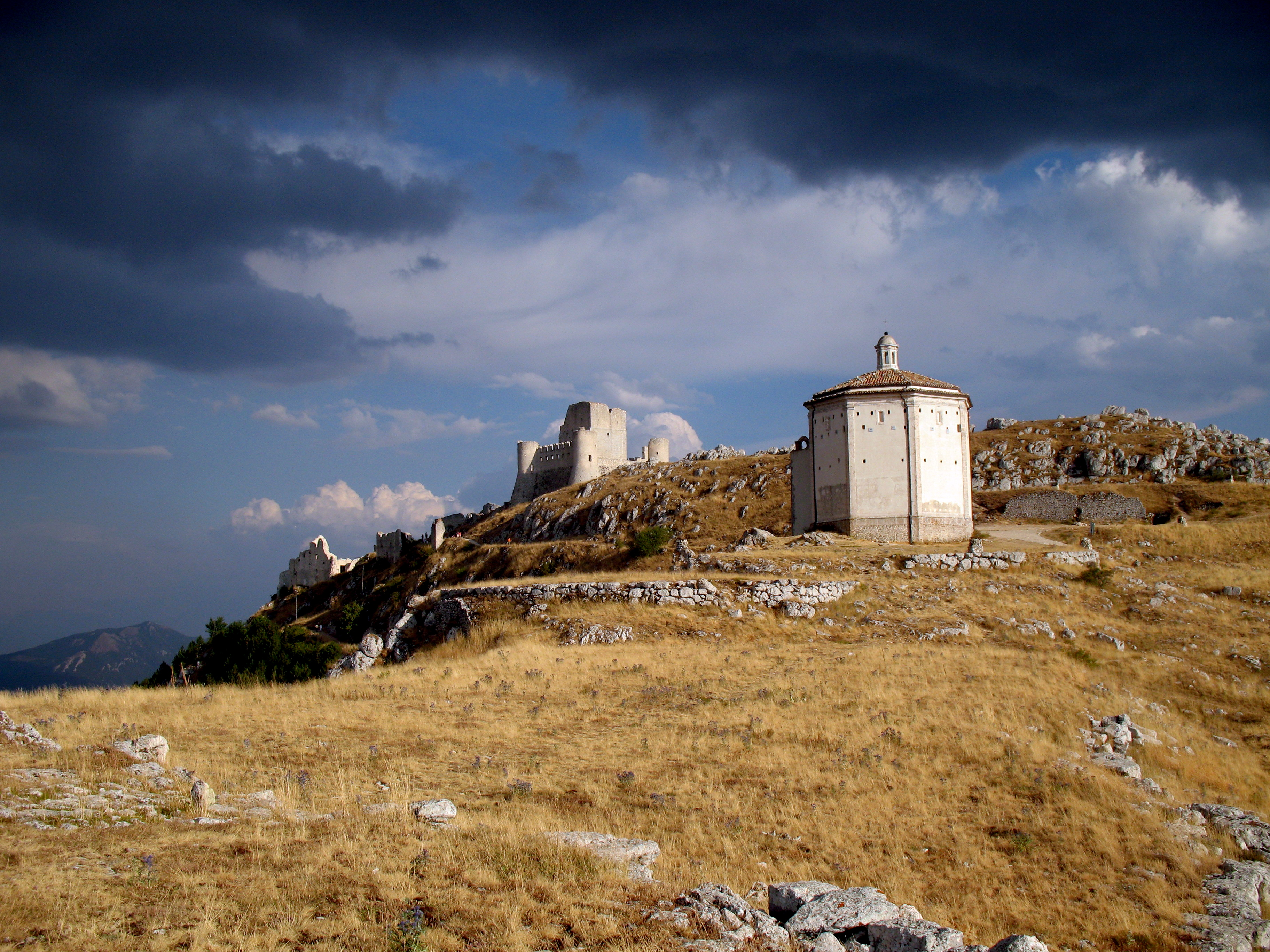 Rocca Calascio by Miles Gerety, August 2007, ShareAlike